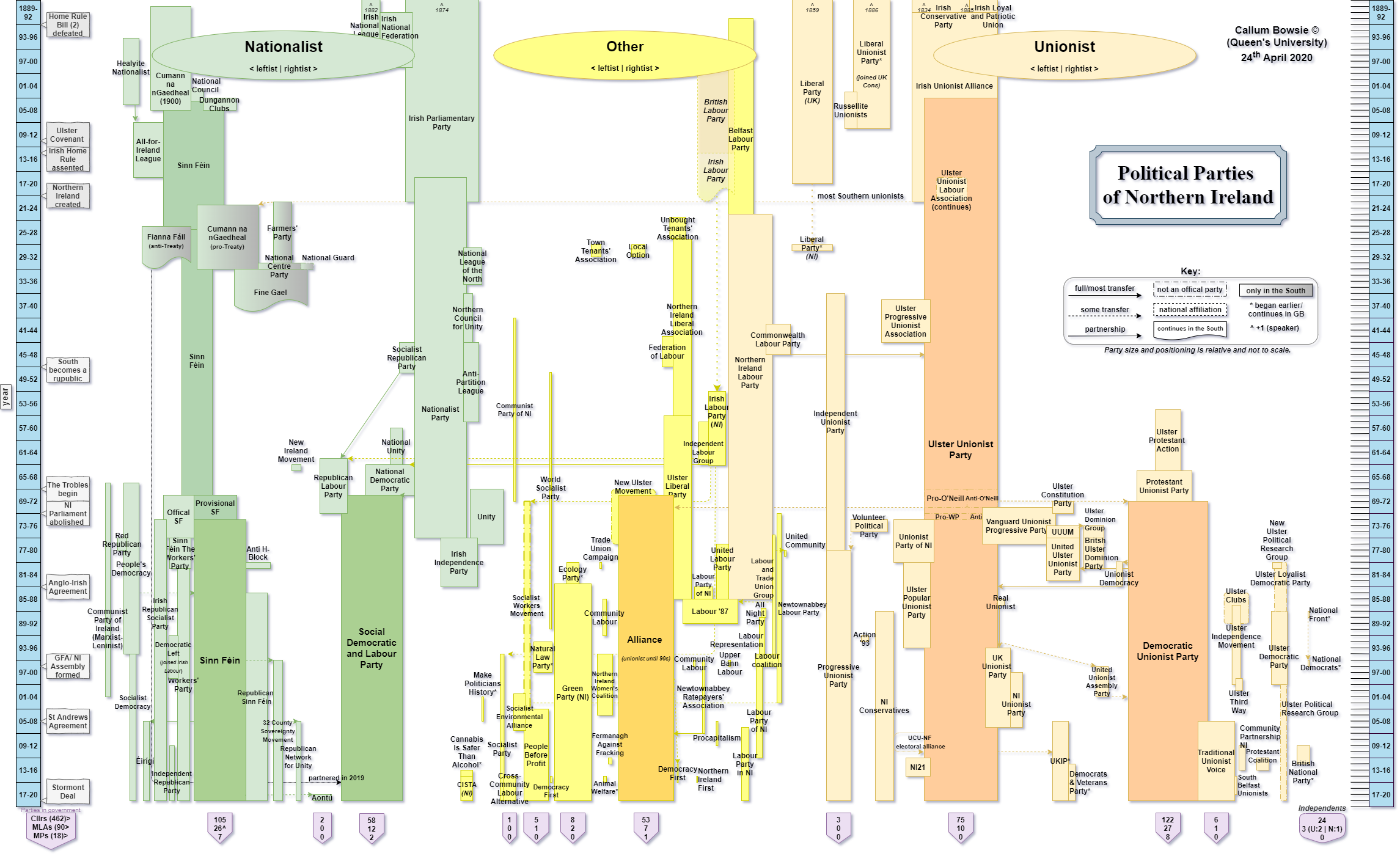 The purpose of this chart is to illustrate the splits and mergers around the main political parties in Northern Ireland. It includes every party that has stood in a Northern Irish election, plus any others identified. It also includes all-Ireland parties before partition to contextual the 1920s onwards. Bolder colours highlight the current main five parties. Party size is not to exact scale, rather is relative to the socio-political context (i.e. votes, representatives and significance - averaged out over its existence). Parties are not in order on an overall left/right-wing spectrum, rather are only positioned relative to the party it has (usually) spilt from or merged with.